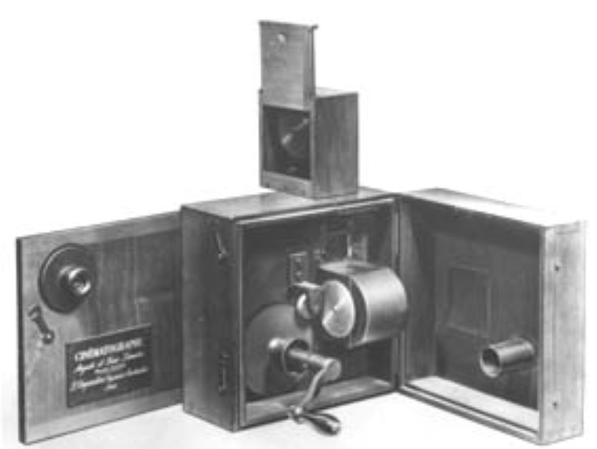 Cinematograph - Lumière brothers movie camera in 1895.